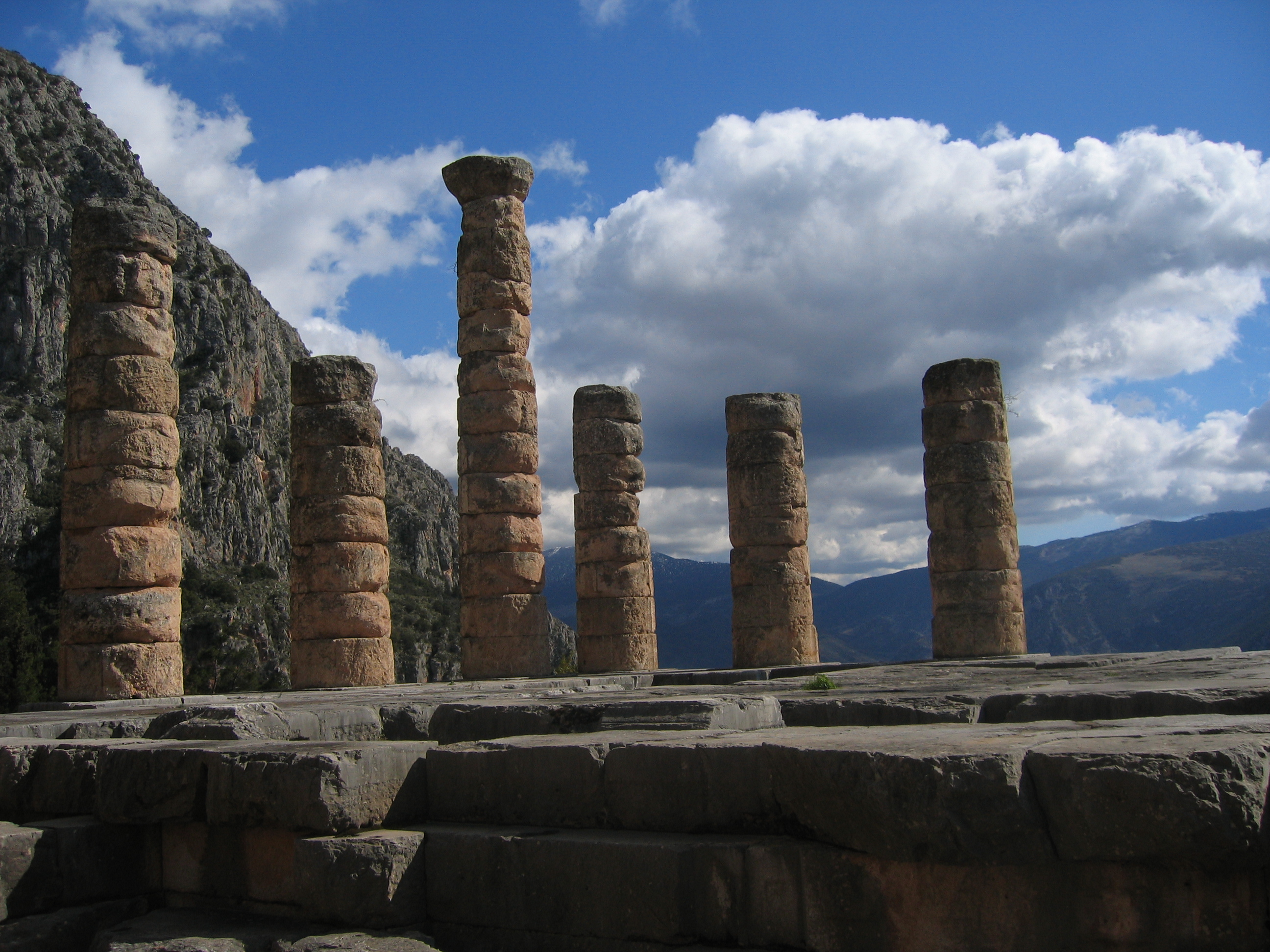 Delphi, Greece, in 2005. I took this photo myself.